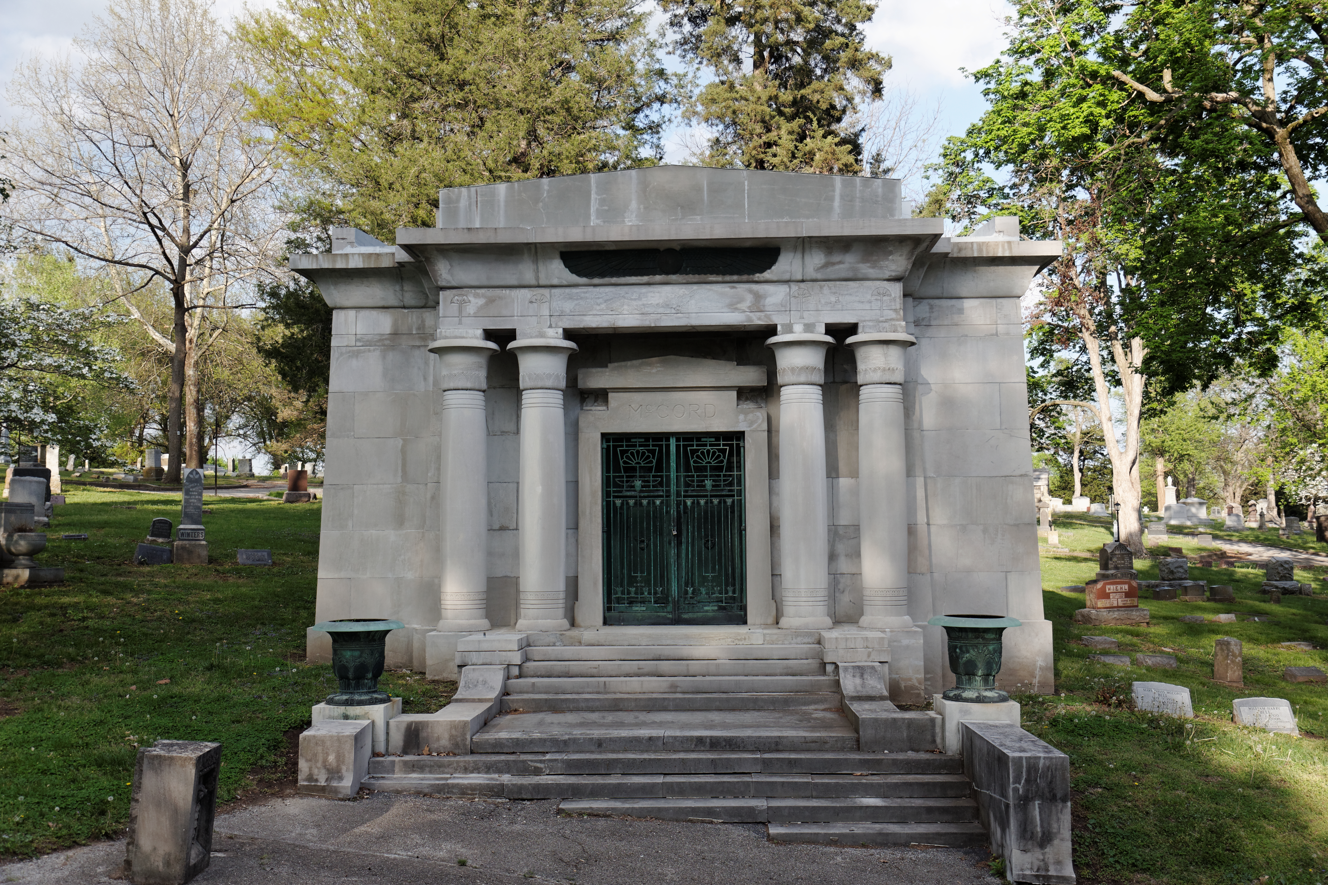 Mt. Mora St. Joseph, MO